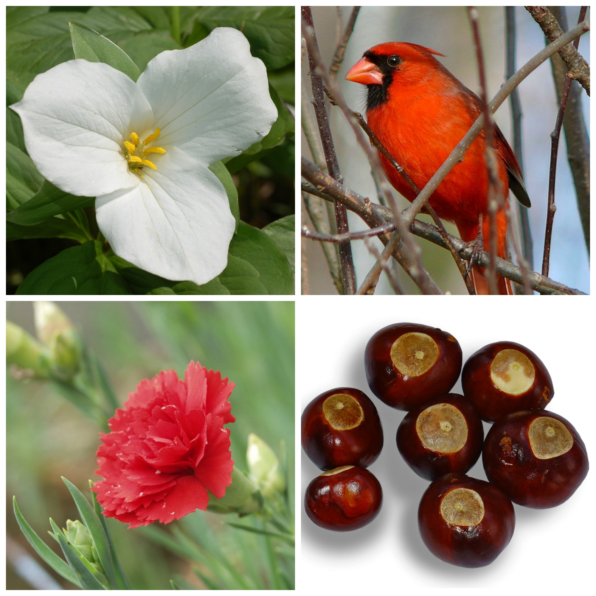 Composite image of Ohio State symbols from images available in wikimedia Commons